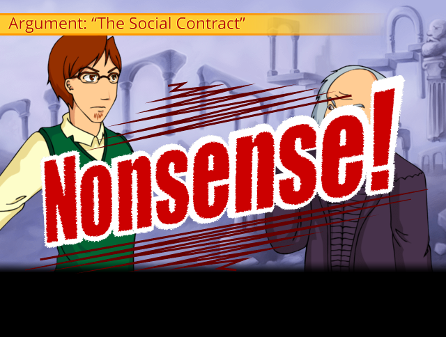 Screenshot from Socrates Jones